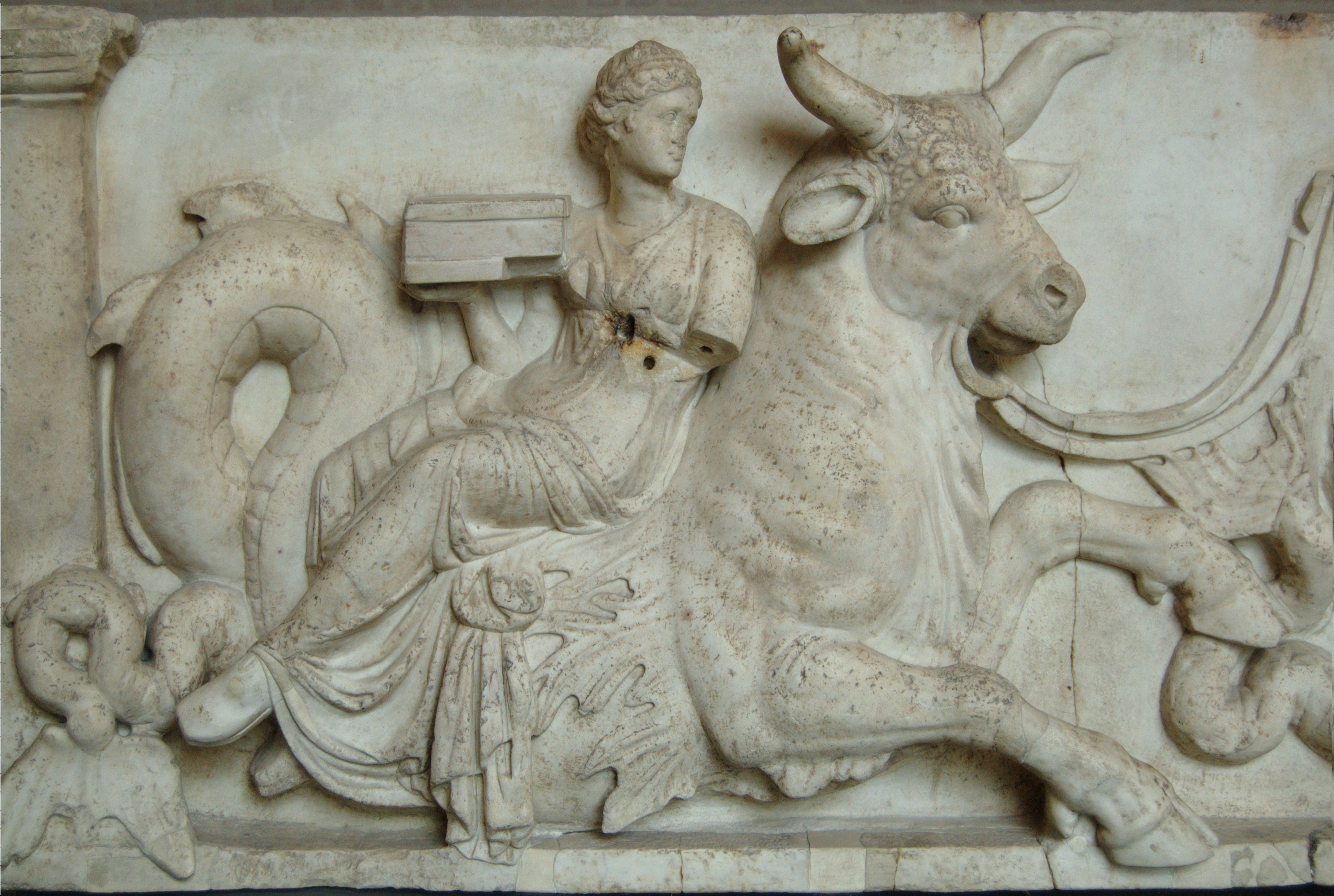 So-called “Altar of Domitius Ahenobarbus” or “Statue Base of Marcus Antonius”, relief freize of a monumental statue group base. Sea thiasos for the wedding of Poseidon and Amphitrite, 2nd half of the 2nd century BC. Detail: Nereid on a sea-bull, bringing a present (front panel).